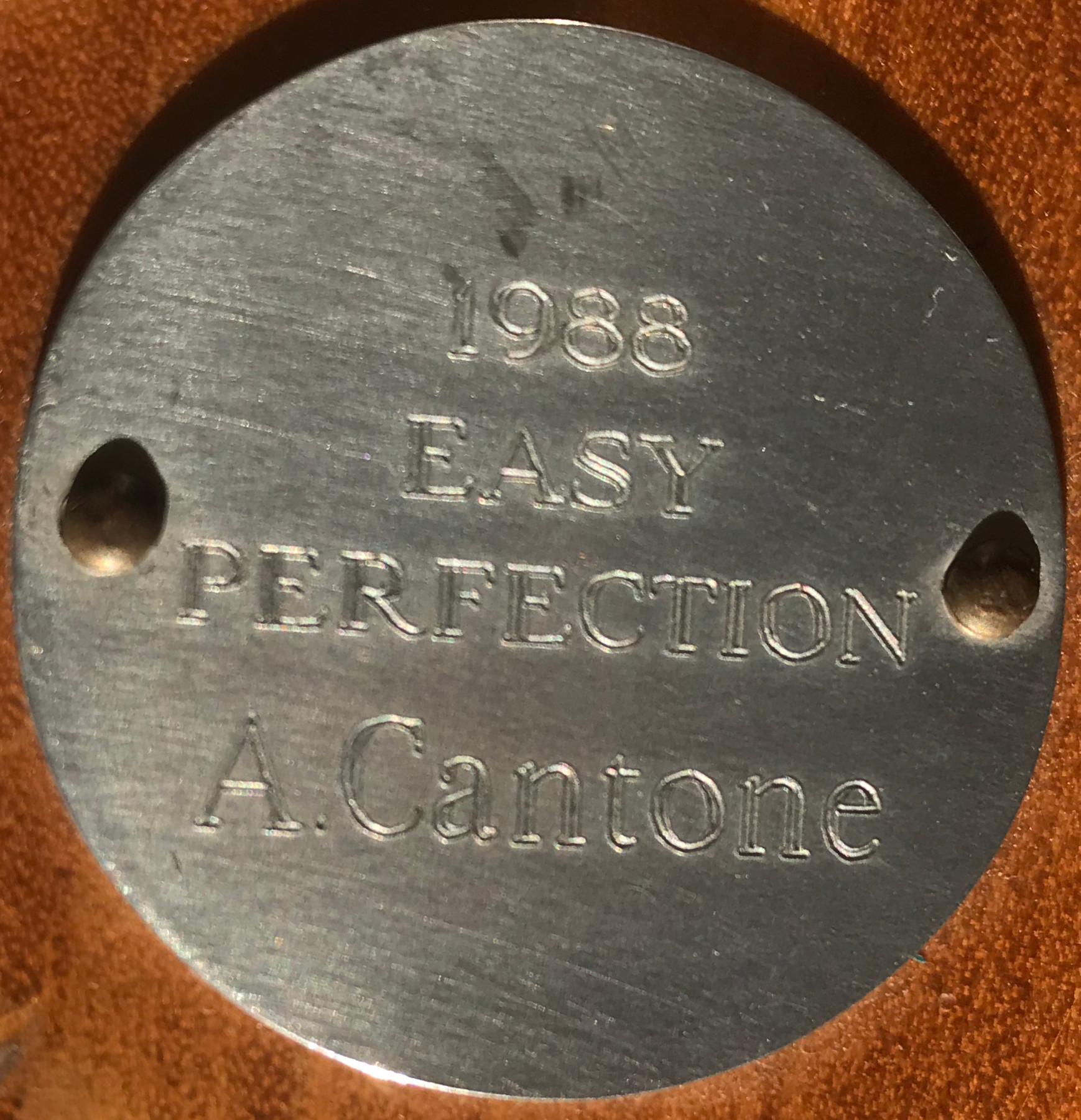 Patch on the Trophy